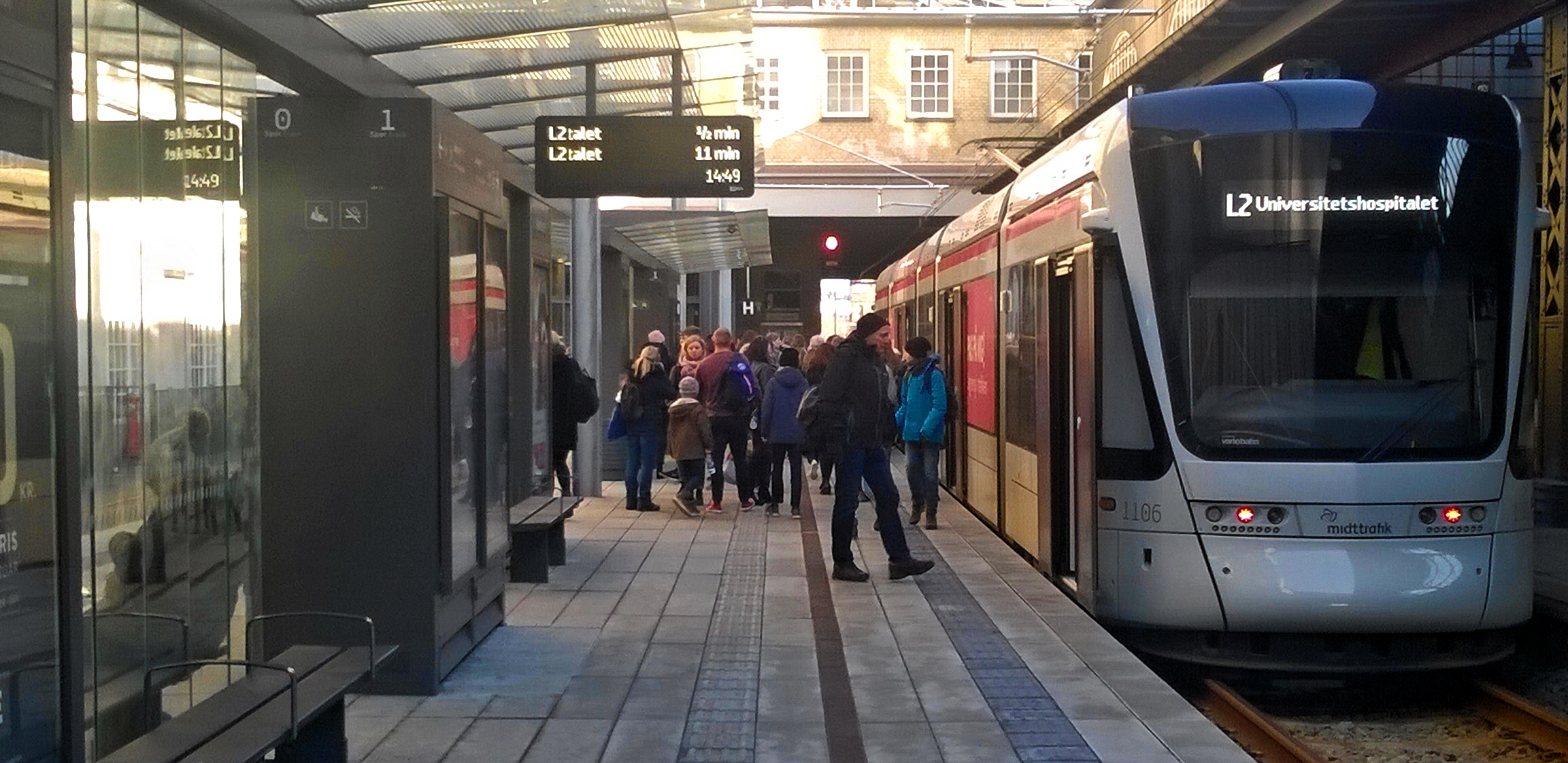 Aarhus Letbane Station på Aarhus Hovedbanegård